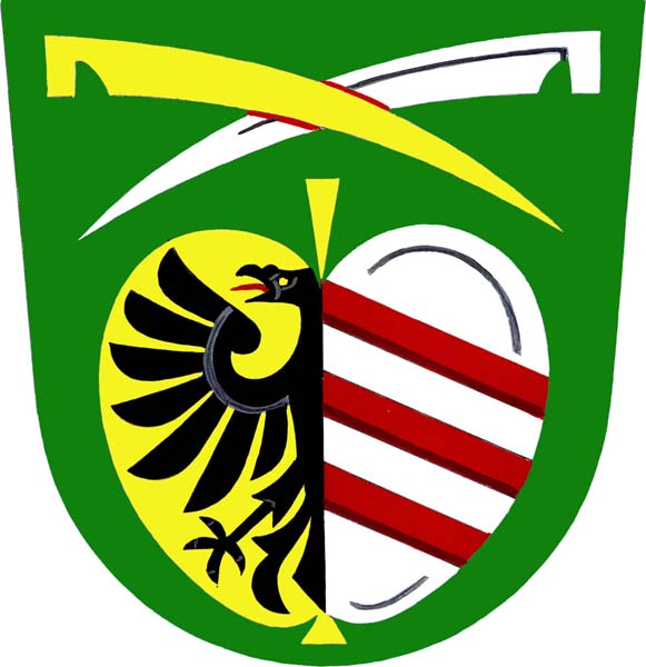 Municipal coat of arms of Kožušice village, Vyškov District, Czech Republic.